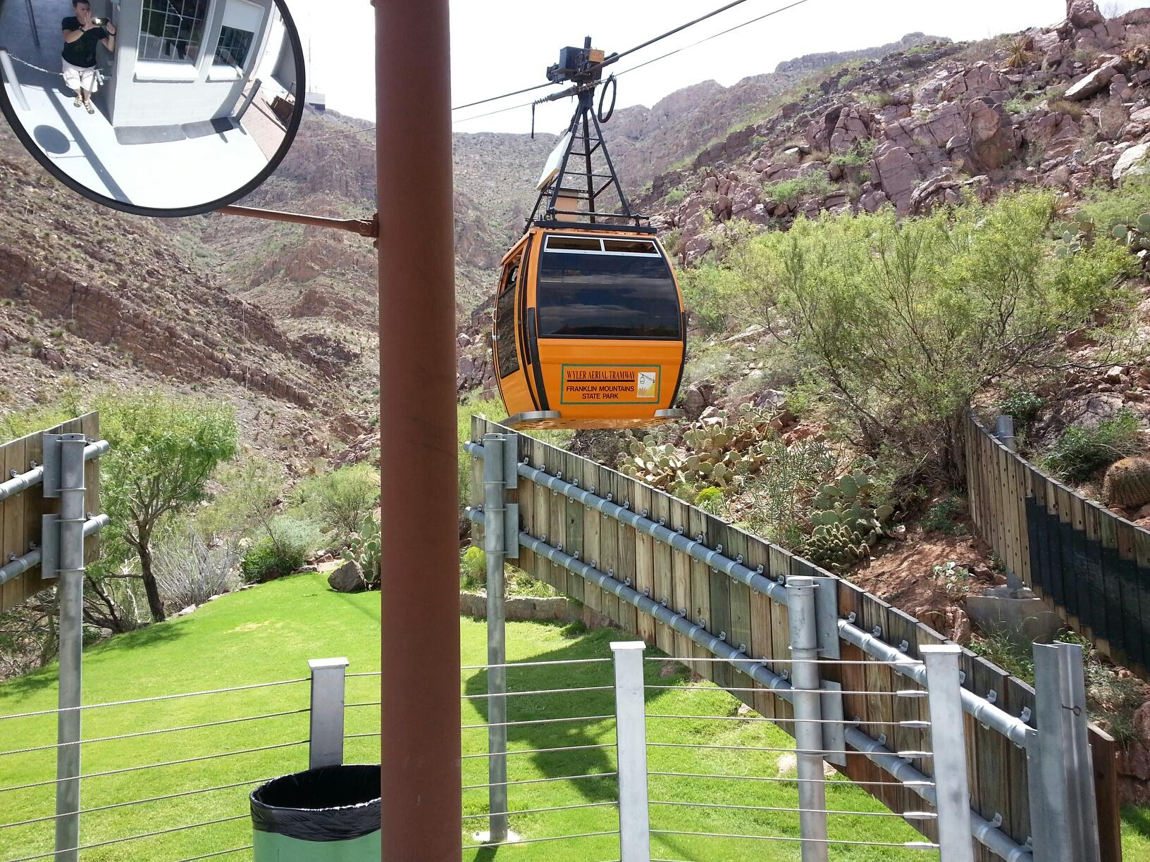 Wyler Aerial Tramway1